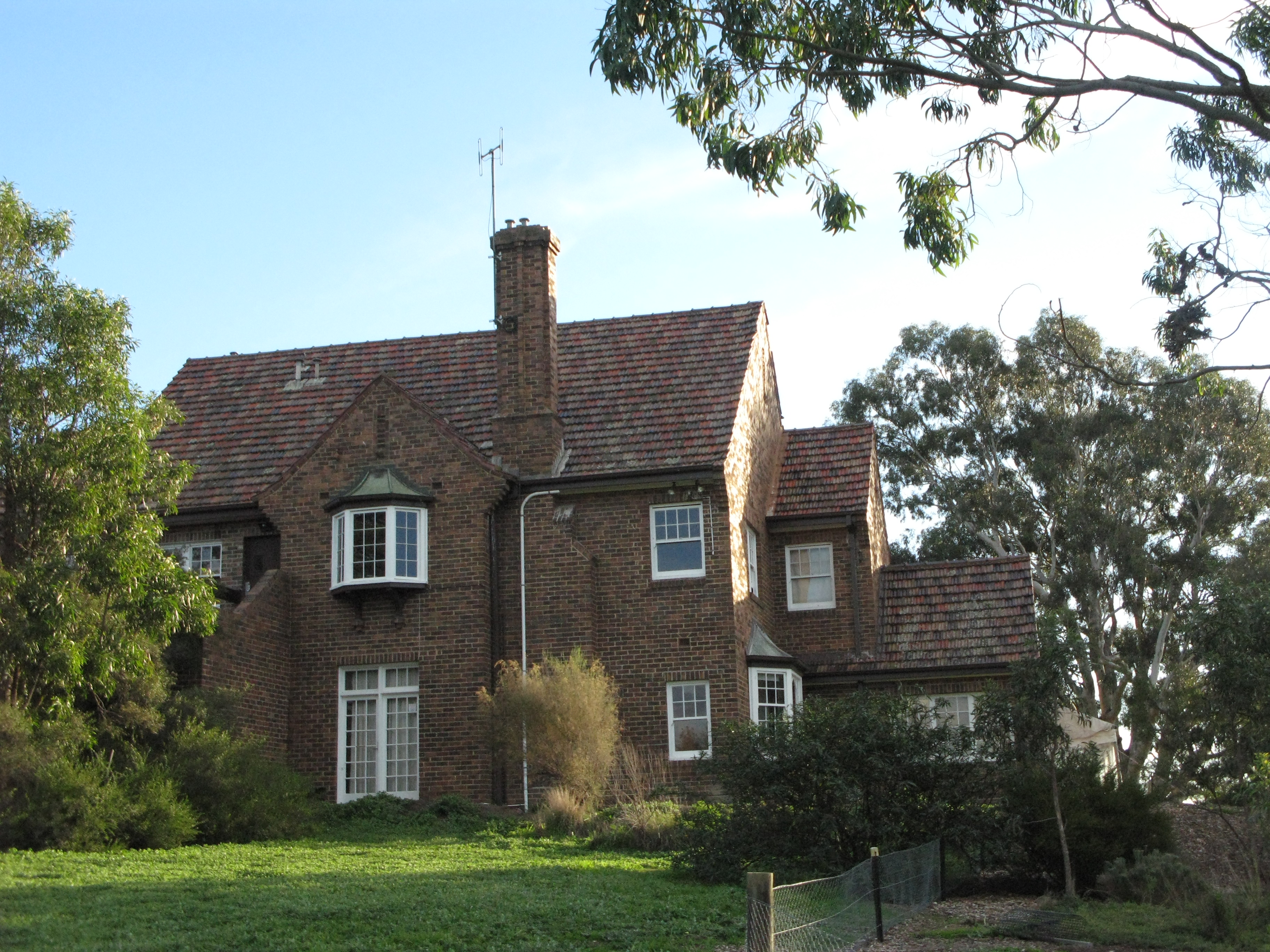 The manor house in Westerfolds Park, Melbourne, Australia. Photo taken by Nick carson in July 2009.